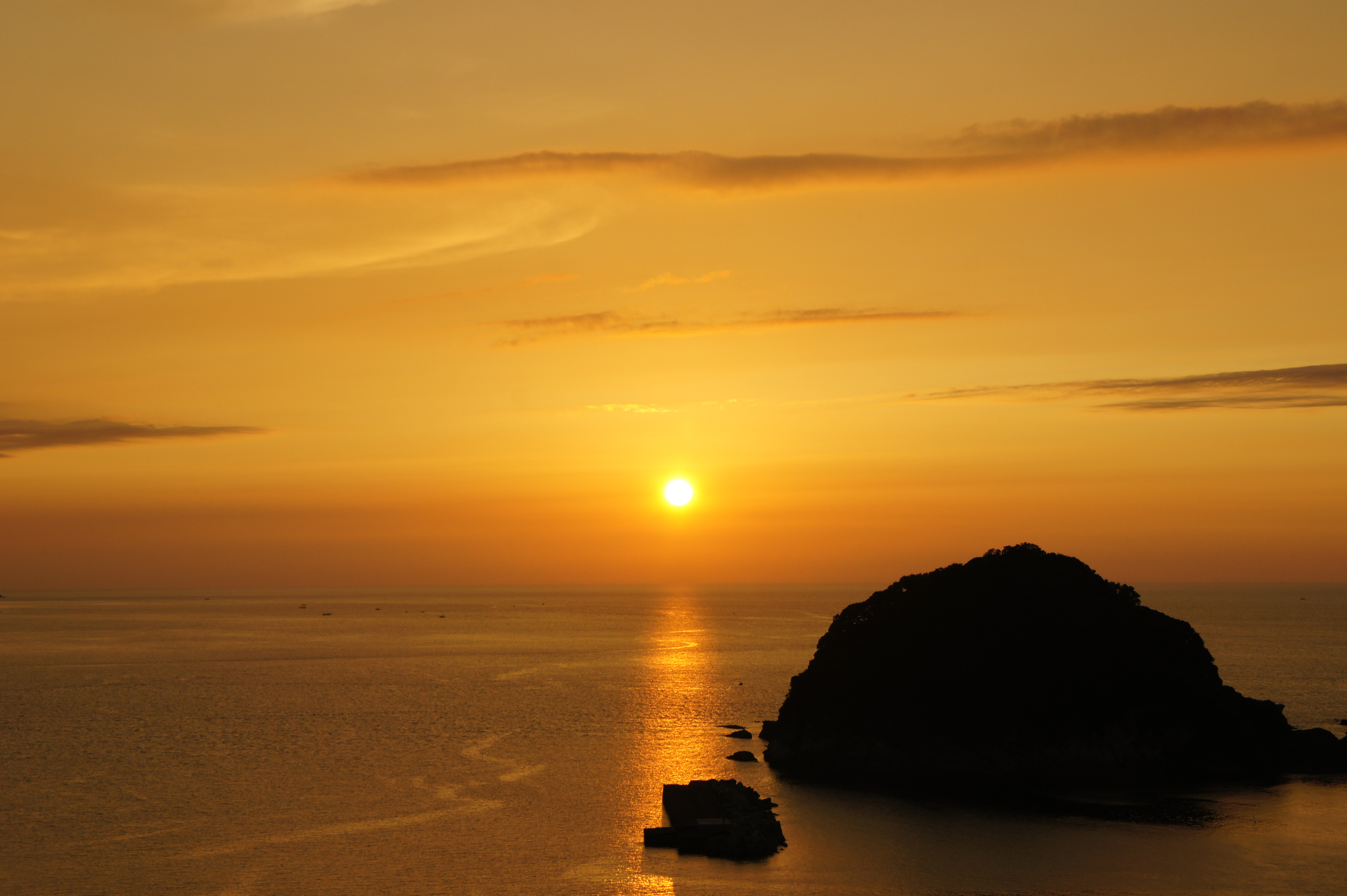 at Imagoura of Kasumi Coast in Kami, Hyogo prefecture, Japan. The place of "Beautiful evening sun veiw point best 100 of Japan" there.